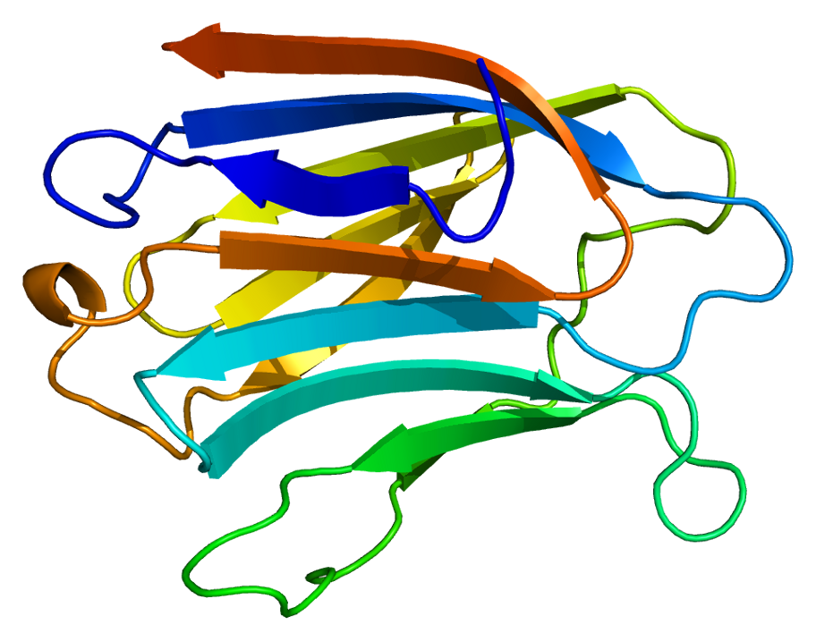 Structure of the LGALS3 protein. Based on PyMOL rendering of PDB 1a3k.